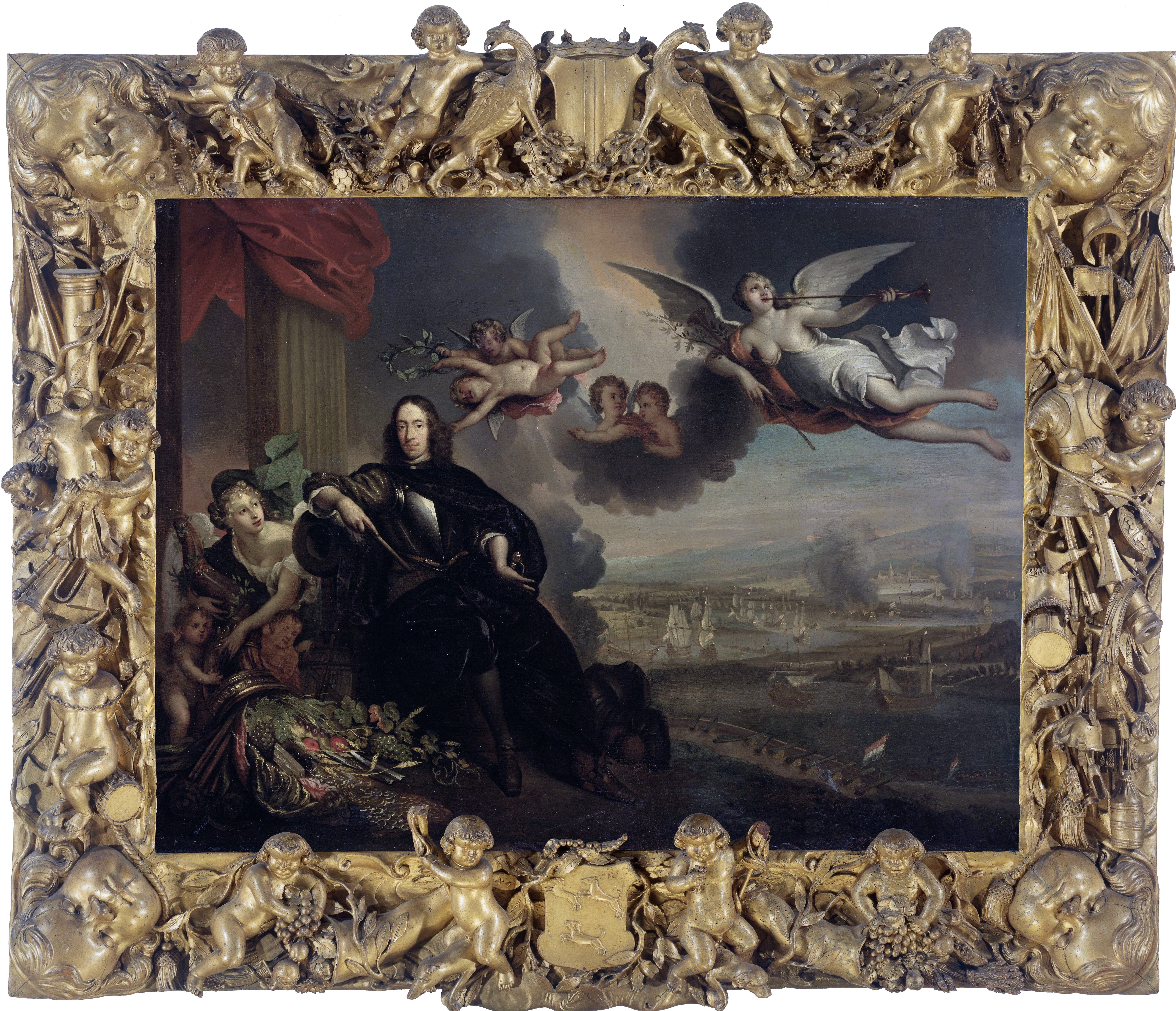 The apotheosis of Cornelis de Witt, with the raid on Chatham in the background. The original by Jan de Baen, kept in the City Hall of Dordrecht, was destroyed in 1672.